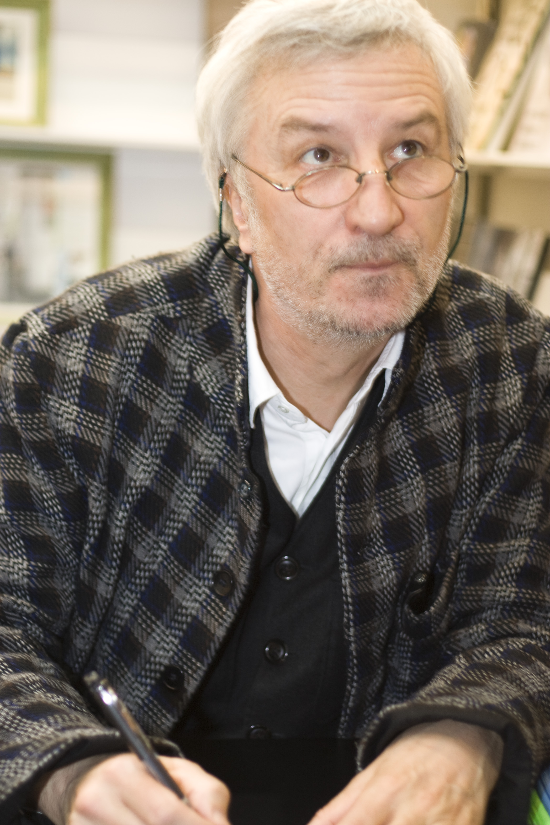 Peter Gaymann at the Leipzig Book Fair